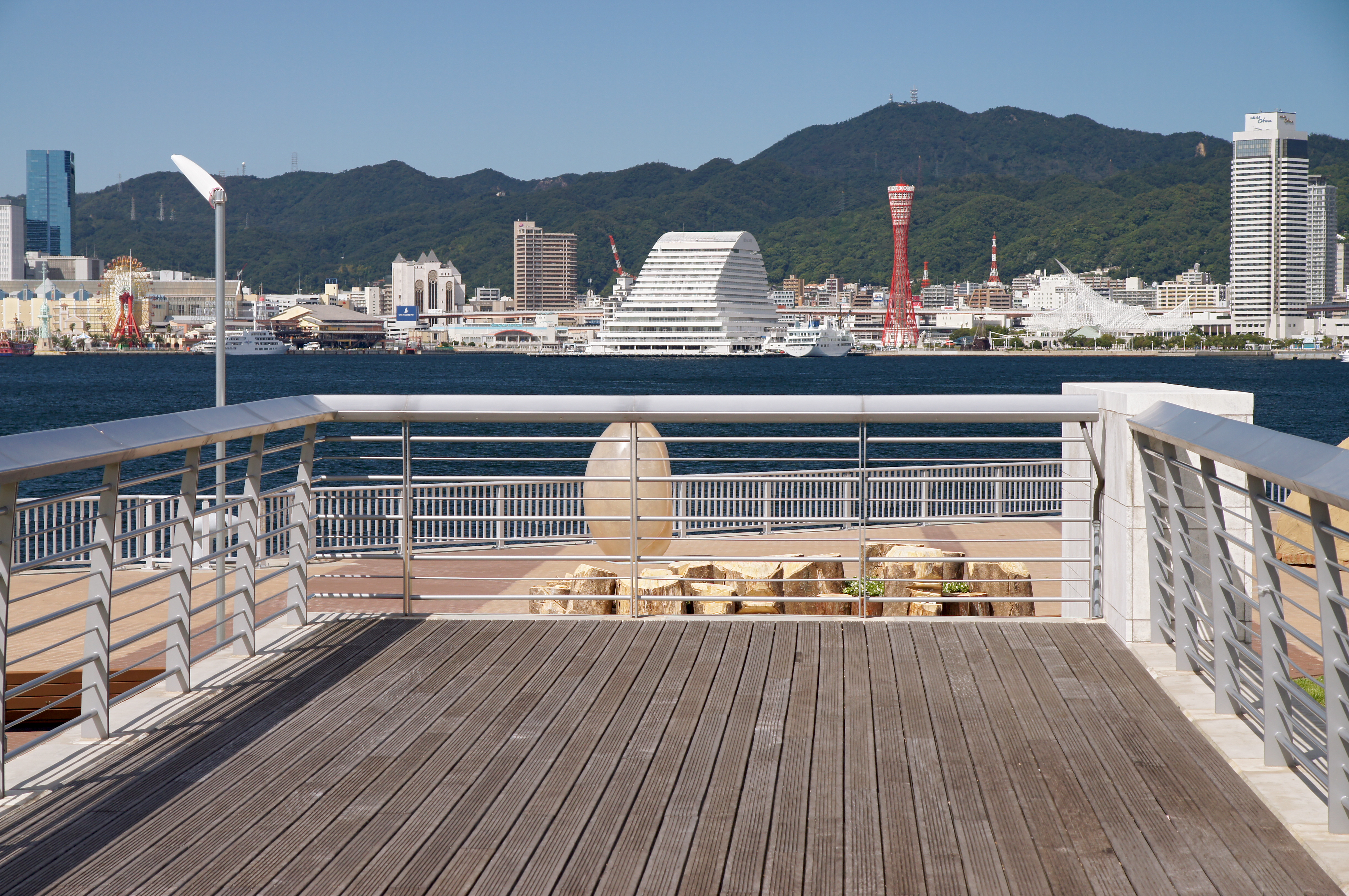 KOBE Biennale 2011 at Po-ai Shiosai Park in Kobe, Hyogo prefecture, Japan